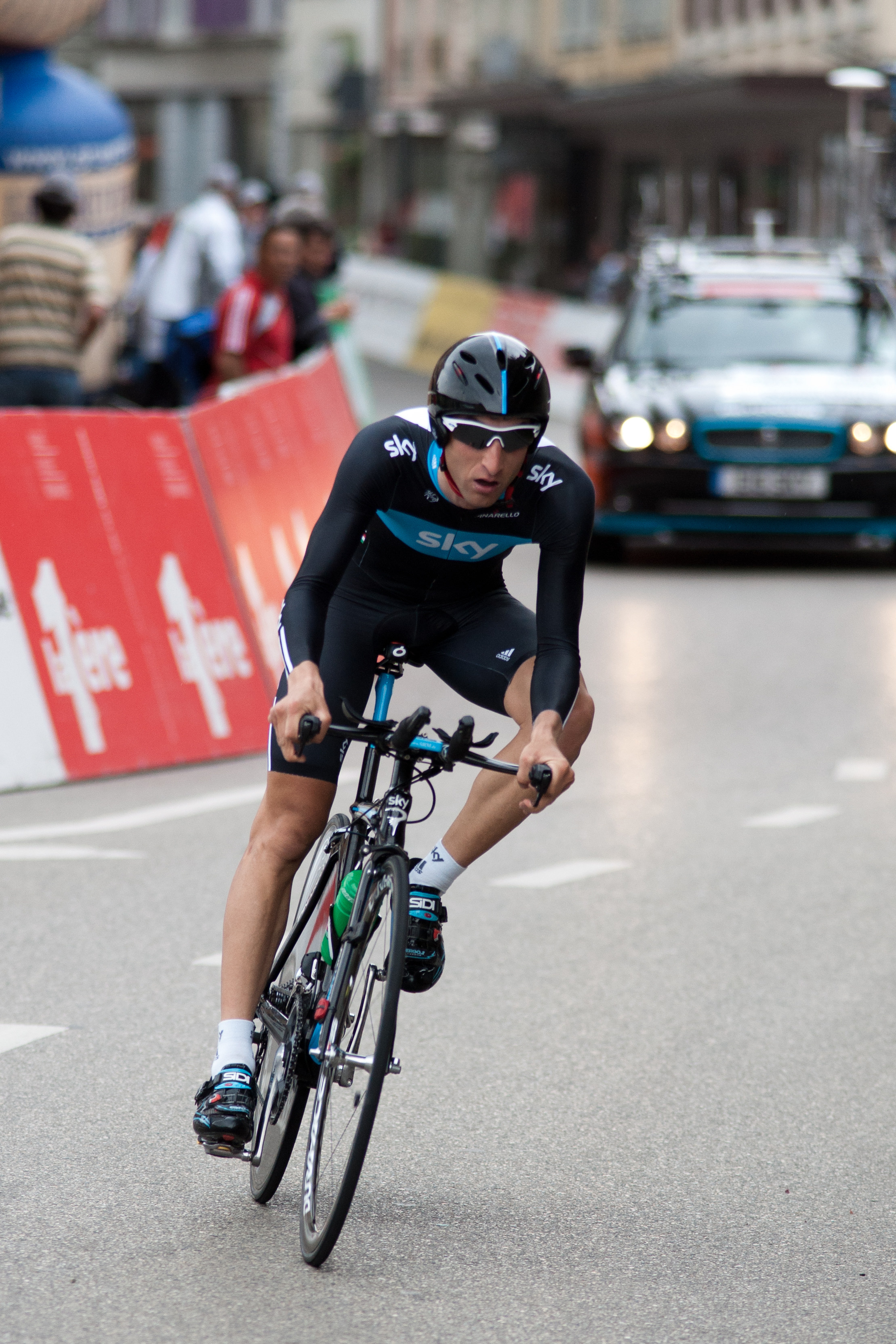 Morris Possoni during the 3rd stage of the Tour de Romandie 2010.